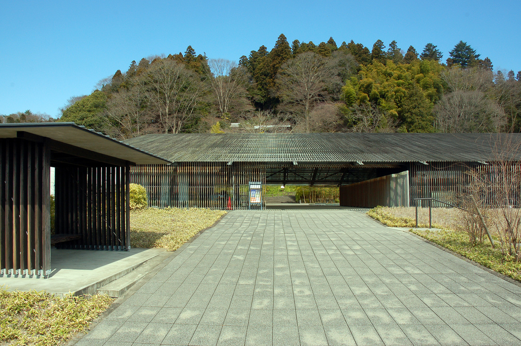 Nakagawa-machi Bato Hiroshige Museum of Art in Nakagawa, Tochigi, Japan. Designed by Kengo Kuma.